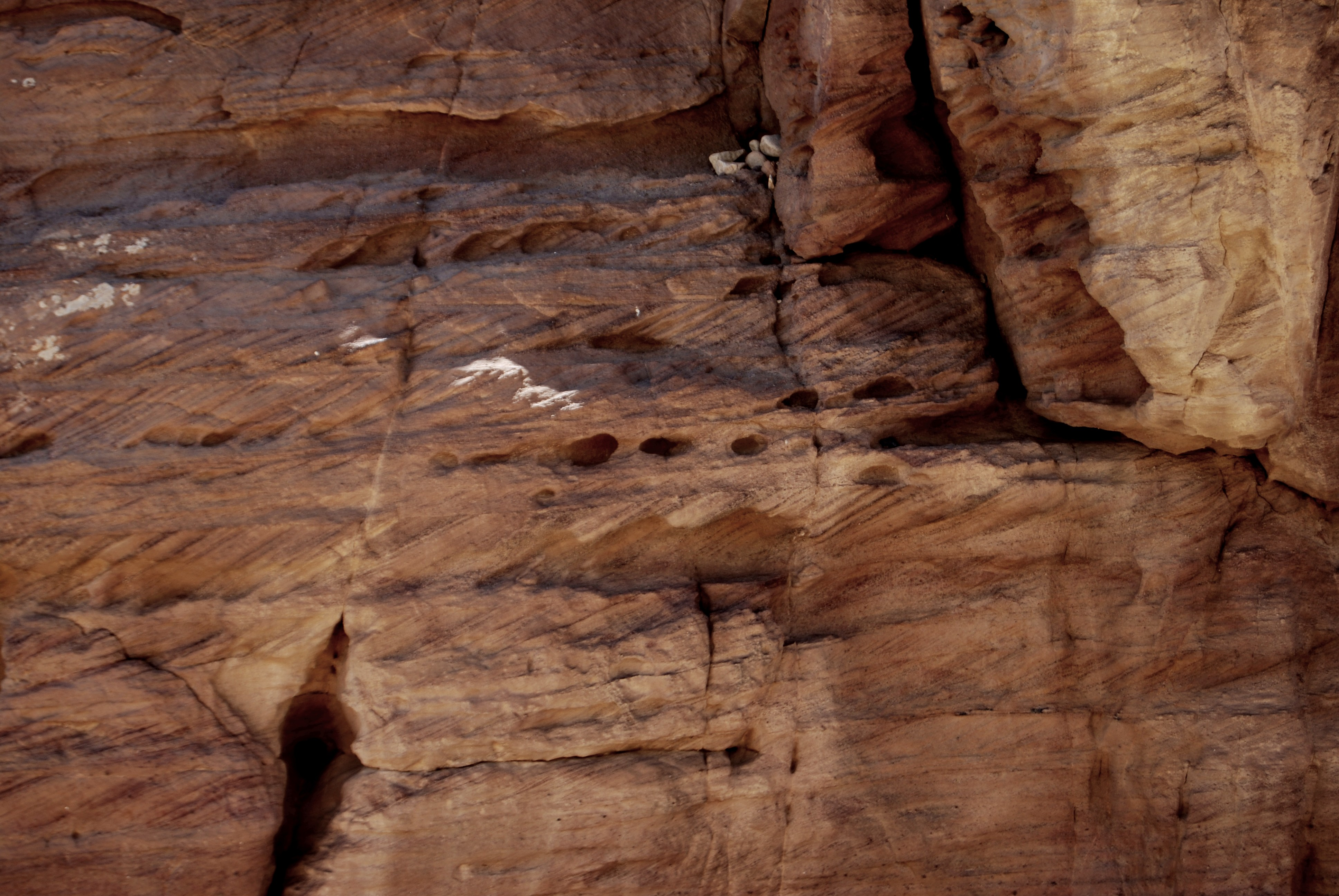 cross bedding in Nahal Ramon, Makhtesh Ramon, Israel